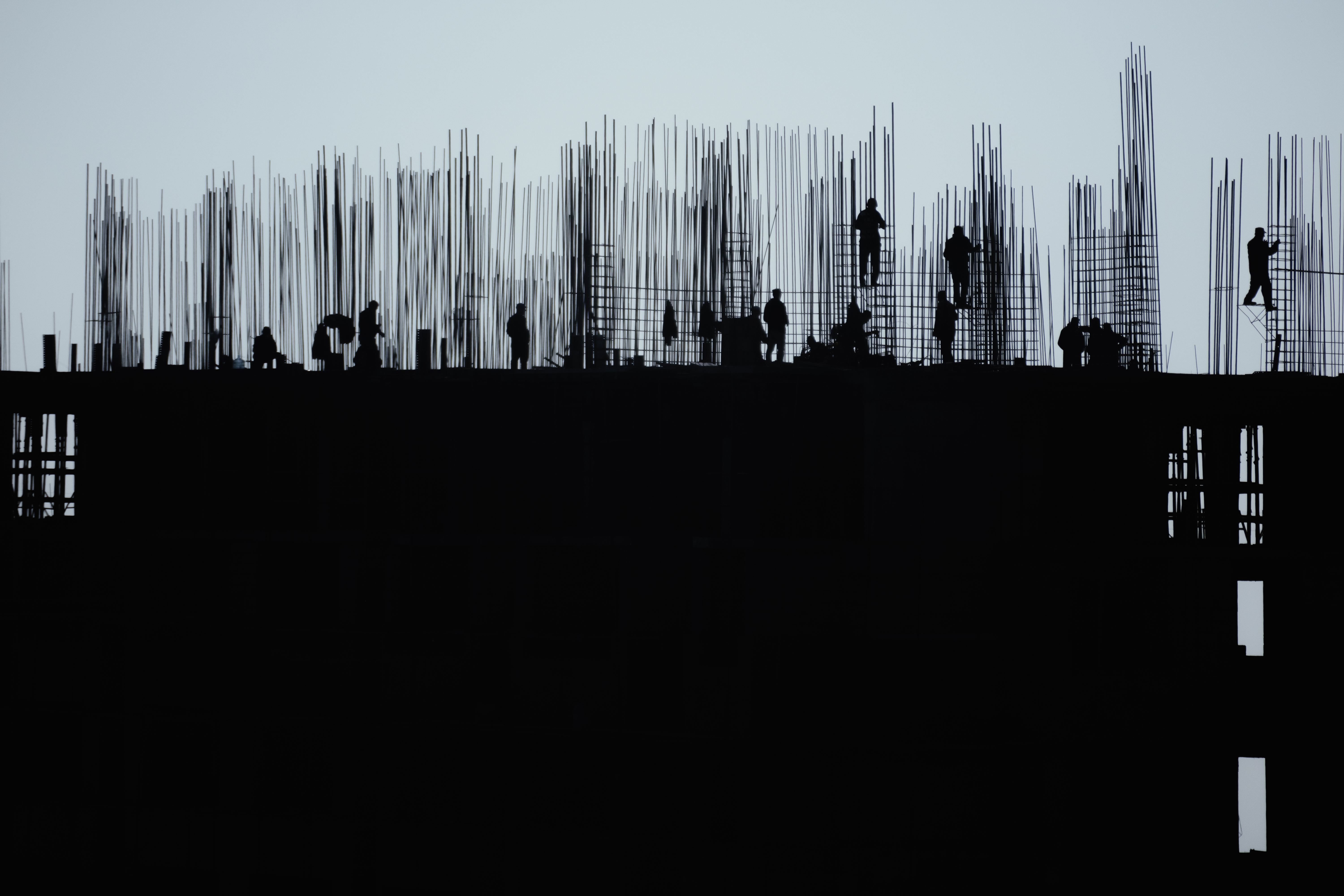 Yerevan is the capital and largest city of Armenia and one of the world's oldest continuously inhabited cities.